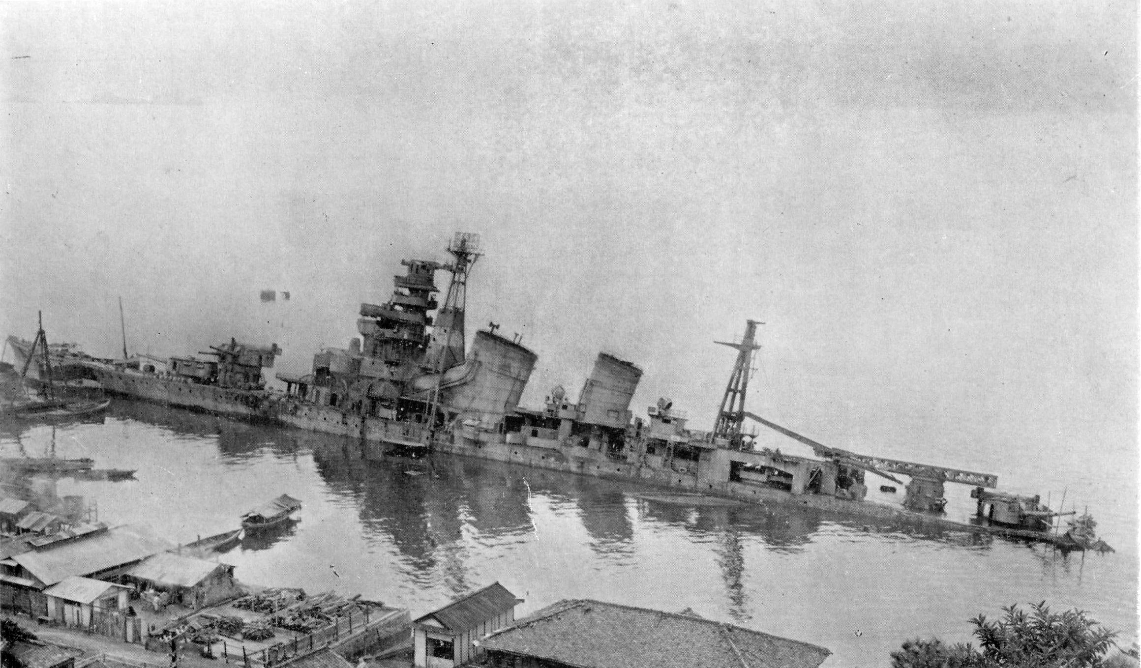 Japanese cruiser Aoba sunk at Kure, Japan.